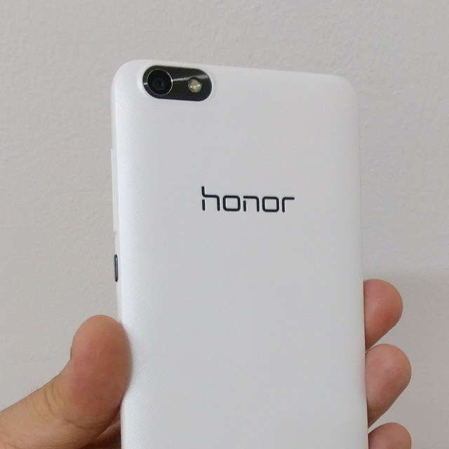 Pretty sweet this. High-spec Honor 4X coming your way soon #huaweidevicemy